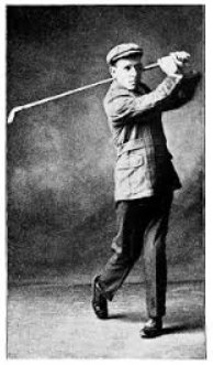 American professional golfer Bernard Nicholls, circa 1897